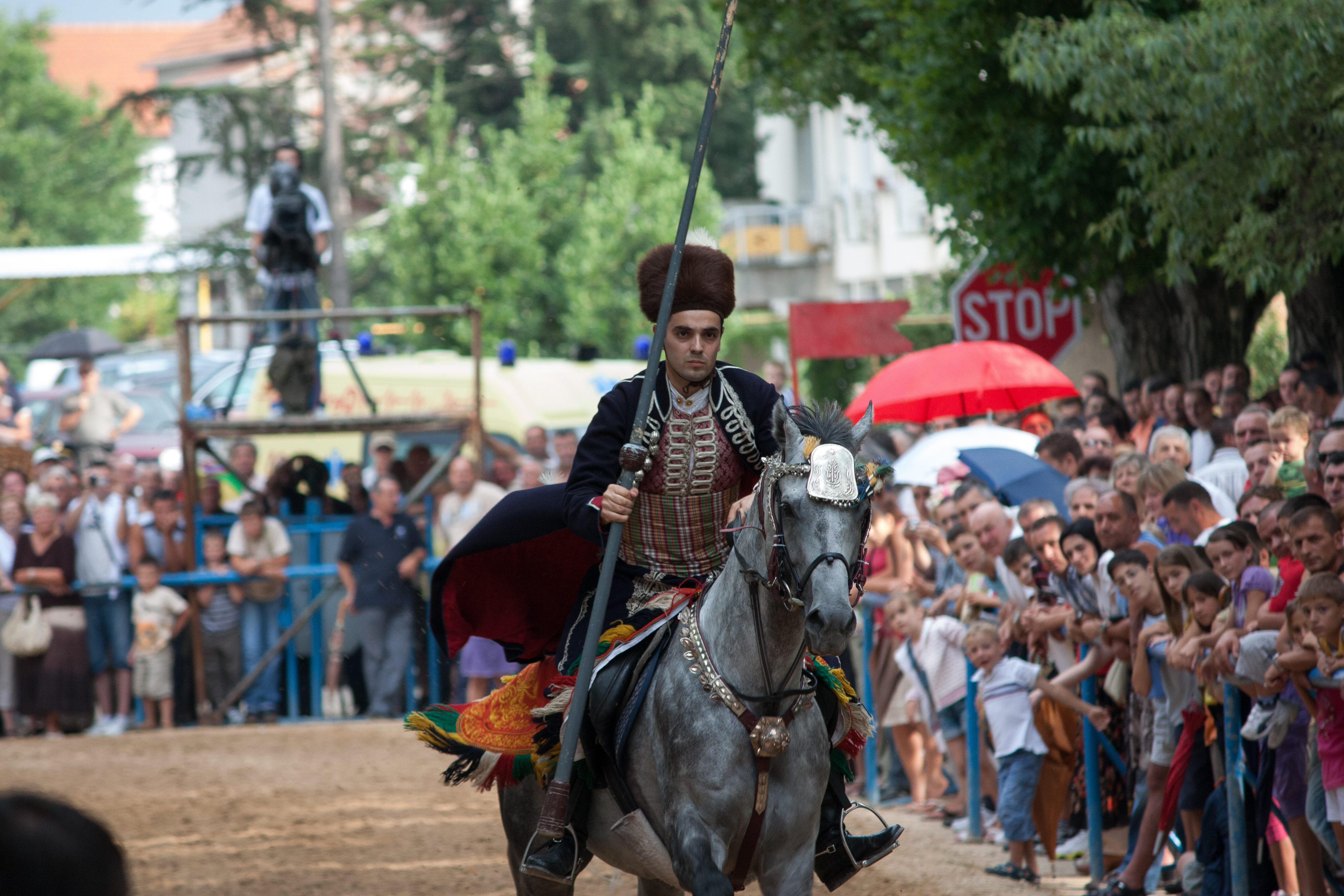 Horseman